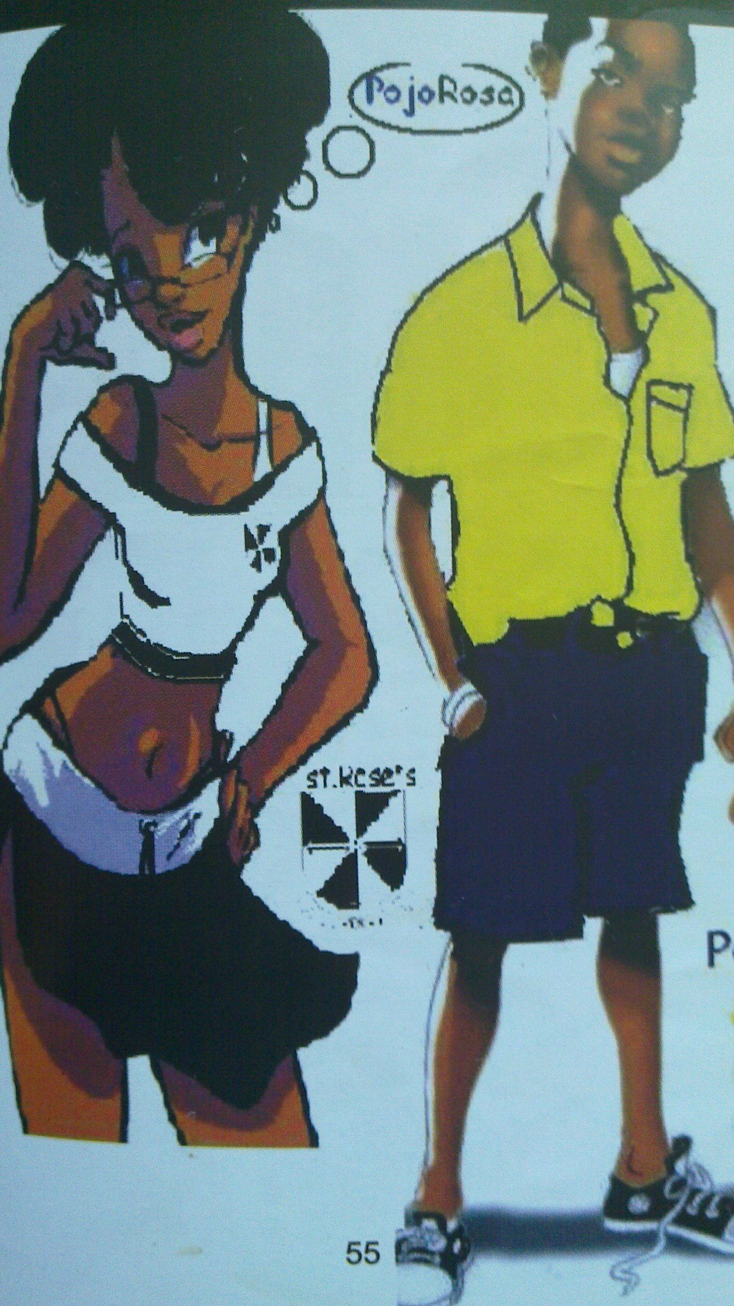 pojorosa